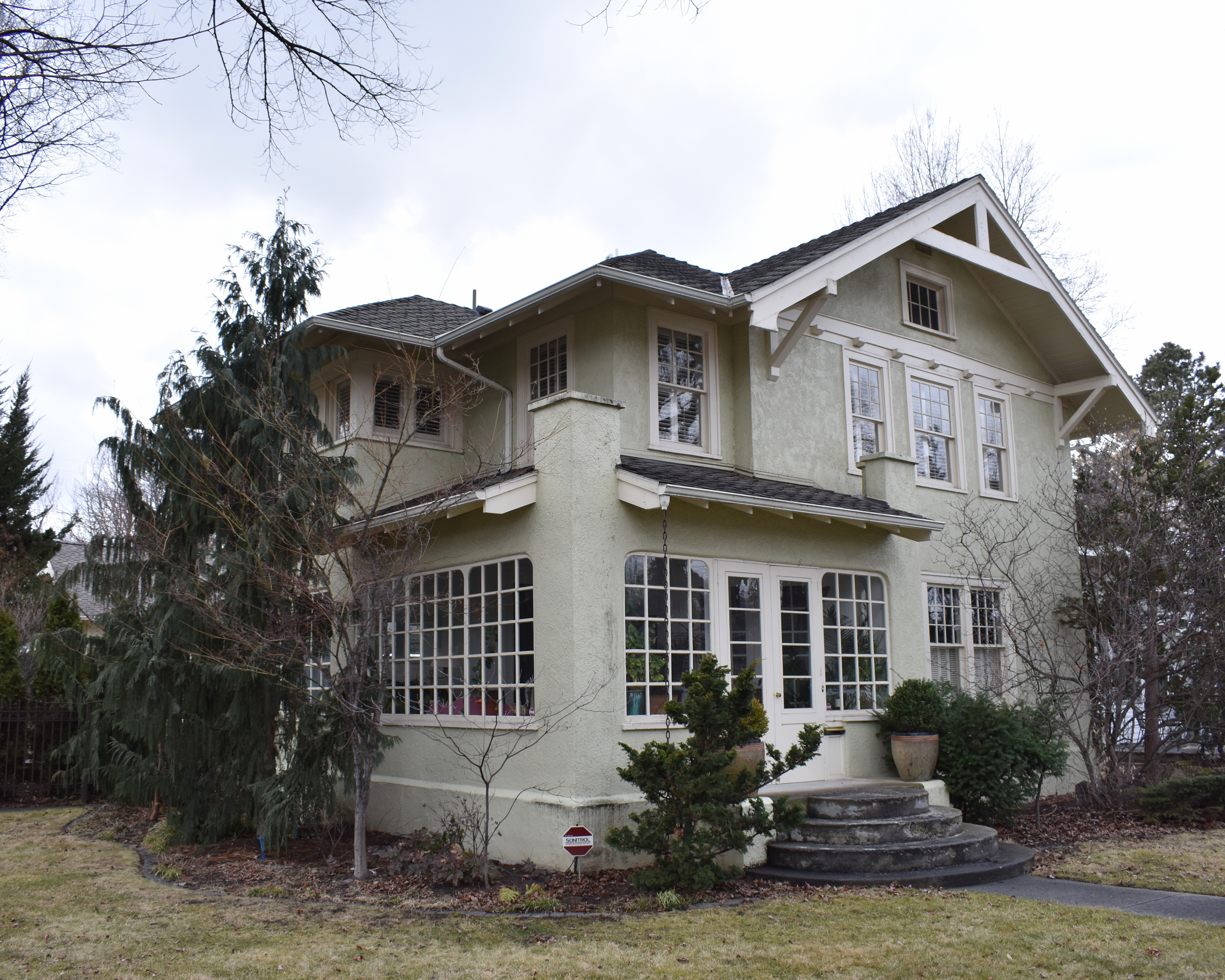 The Edward Welch House (1912) in Boise, Idaho, was designed by Tourtellotte & Hummel and is listed on the National Register of Historic Places.